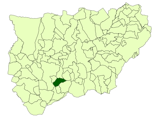 Situation of the municipality of Pegalajar (Jaén, Spain).